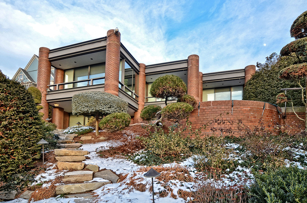 110 Congdon Street Providence RI built between 1970-1974 designer: Huygens & Tappe, Boston MA